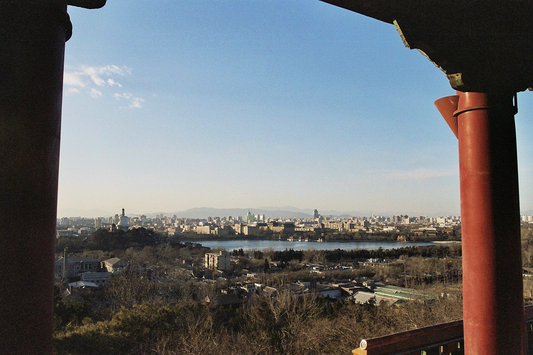 China, Peking